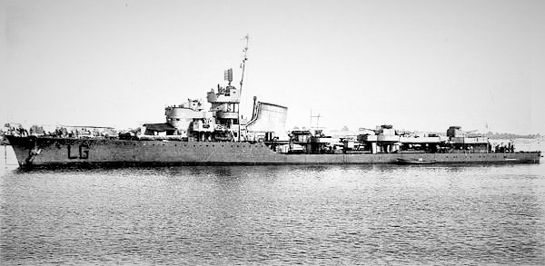 The Regia Marina destroyer Legionario (LG) of Soldati class destroyer in navigation.